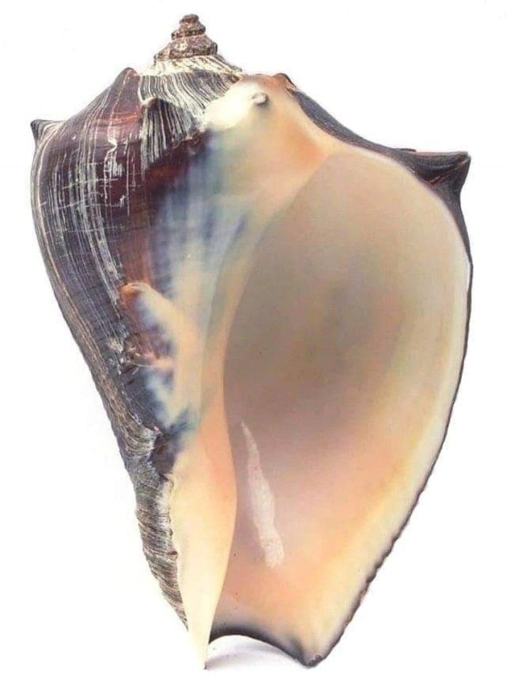 Underside view of the seashell of a Melongenidae species: Melongena patula (Broderip & Sowerby, 1829)[1]; from the Pacific coast of Americas, between West Mexico to Ecuador, in muddy brackish water. Origin of imageː Own Collection. Mexico. Sonora. Cholla Bay. On sandflat at lower midtide. ABBOTT, R. Tucker; DANCE, S. Peter (1982). Compendium of Seashells. A color Guide to More than 4.200 of the World's Marine Shells. New York: E. P. Dutton. p. 175. 412 pp. ISBN 0-525-93269-0